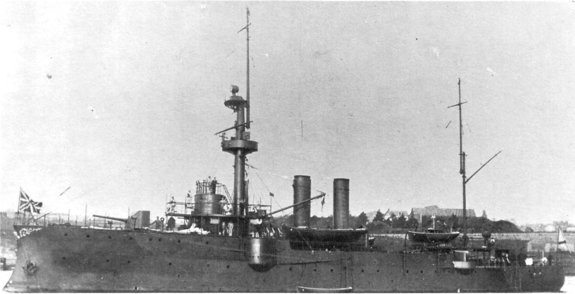 Imperial Russian gunboat Giliak.